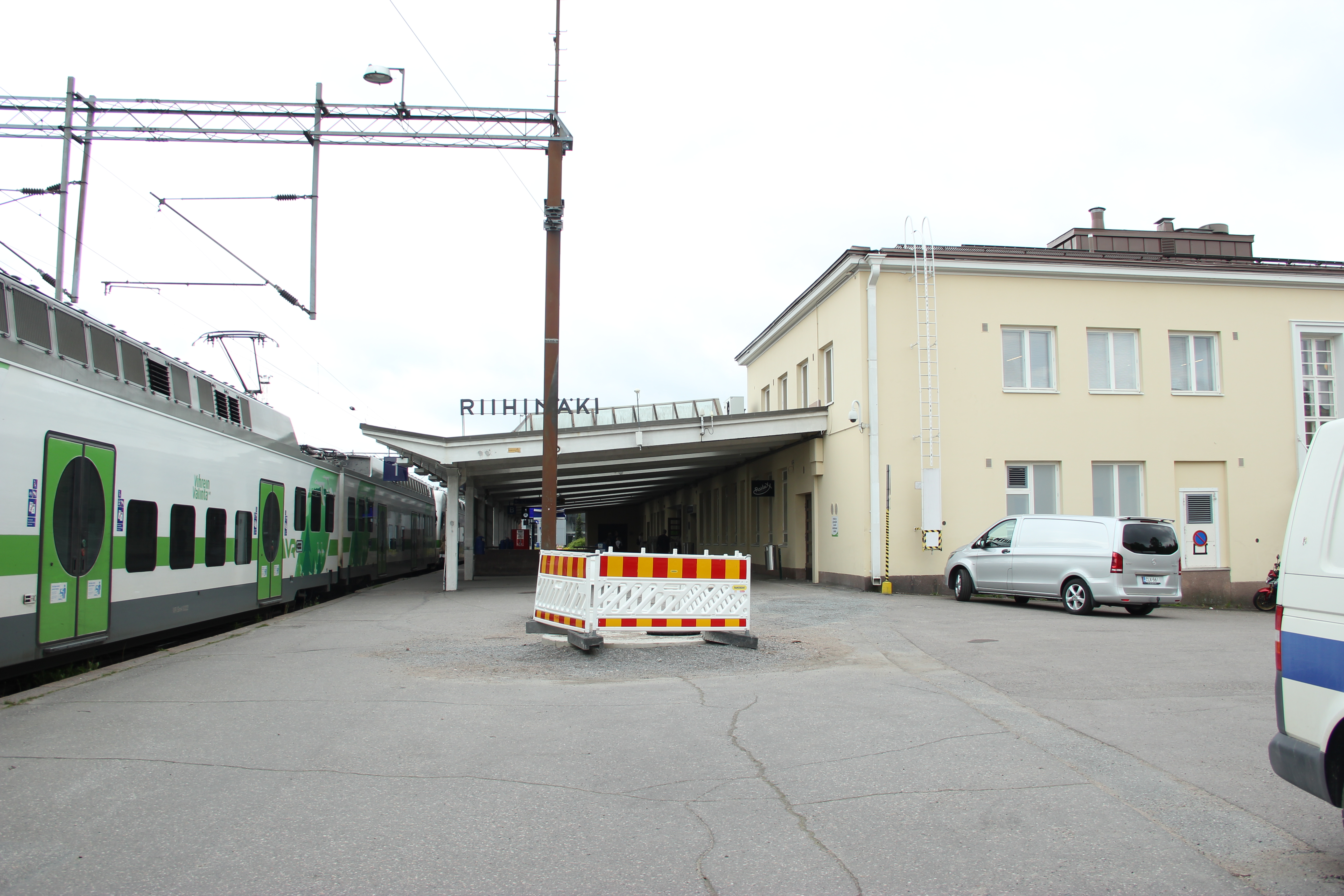 Train to Helsinki. Railway station, Riihimäki, Finland